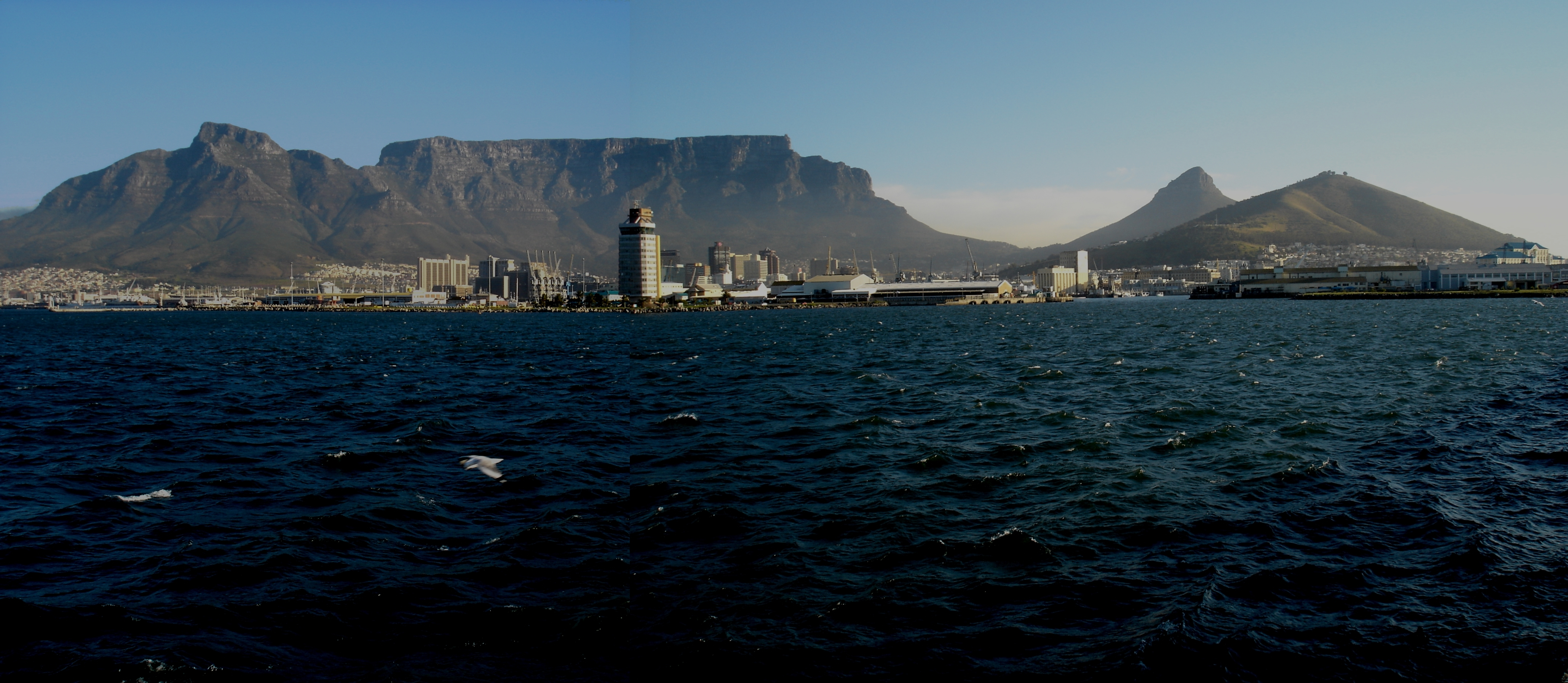 Table Mountain seen from Cape Town harbour's jetty